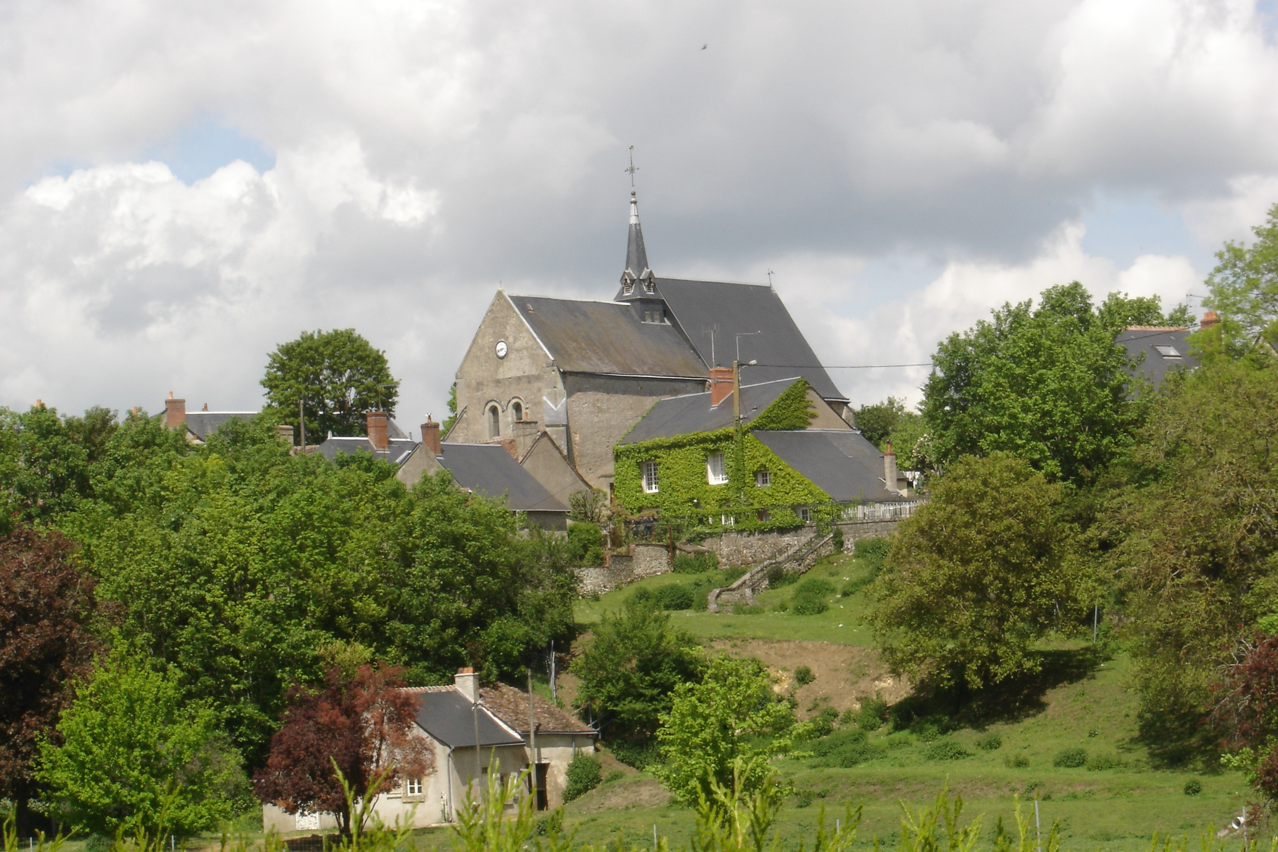 Cerelles (F37), the church.